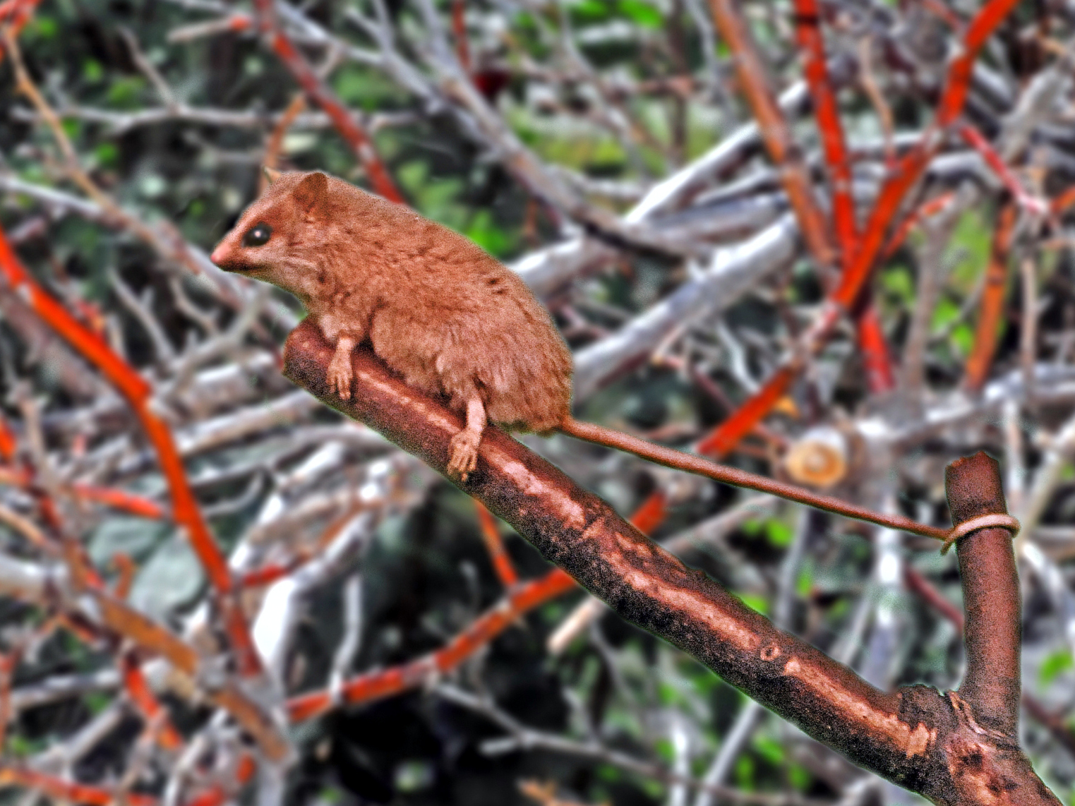 Gracilinanus microtarsus. Stuffed specimen